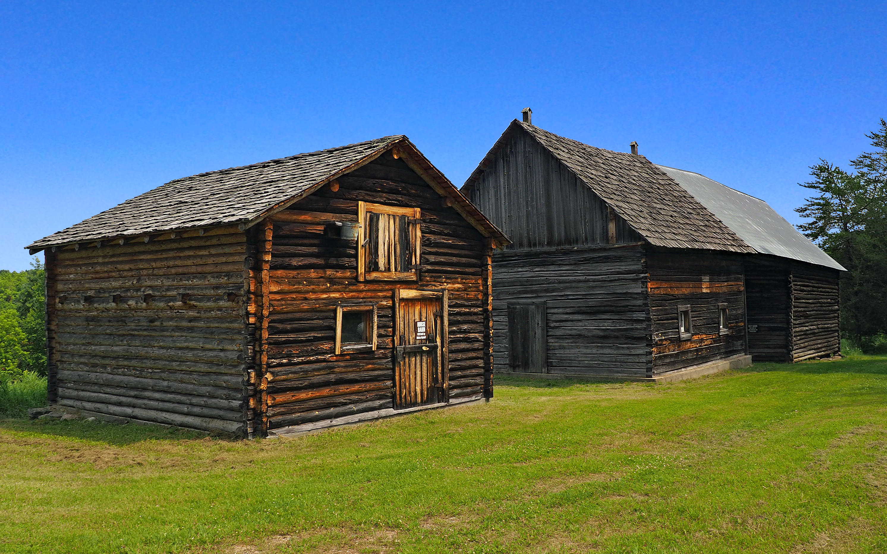 Horse Barn (left) and Cattle/Hay Barn (right), Anna and Mikko Pyhala Farm, 4745 Salo Rd, Embarrass, Minnesota, USA. Viewed from the northwest.